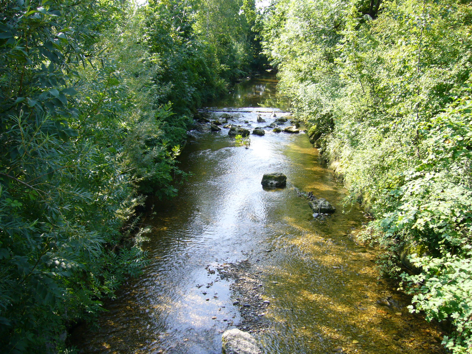 The river Murg near Münchwilen, canton of Thurgau, Switzerland. Picture taken by Peter Berger, July 23, 2006.